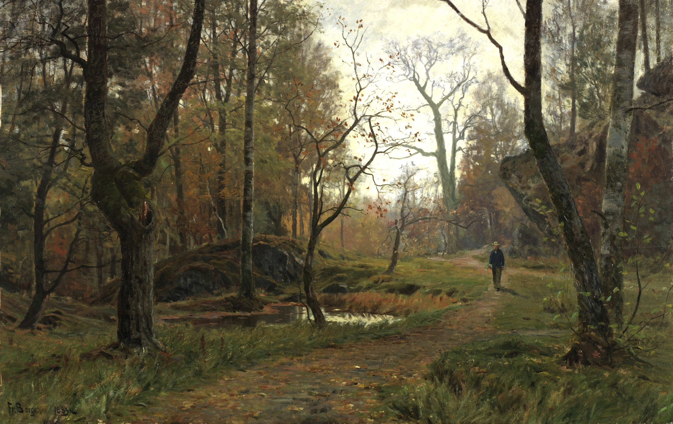 Fredrik Borgen (1852-1907) - ”Morgenstemning” (1883)